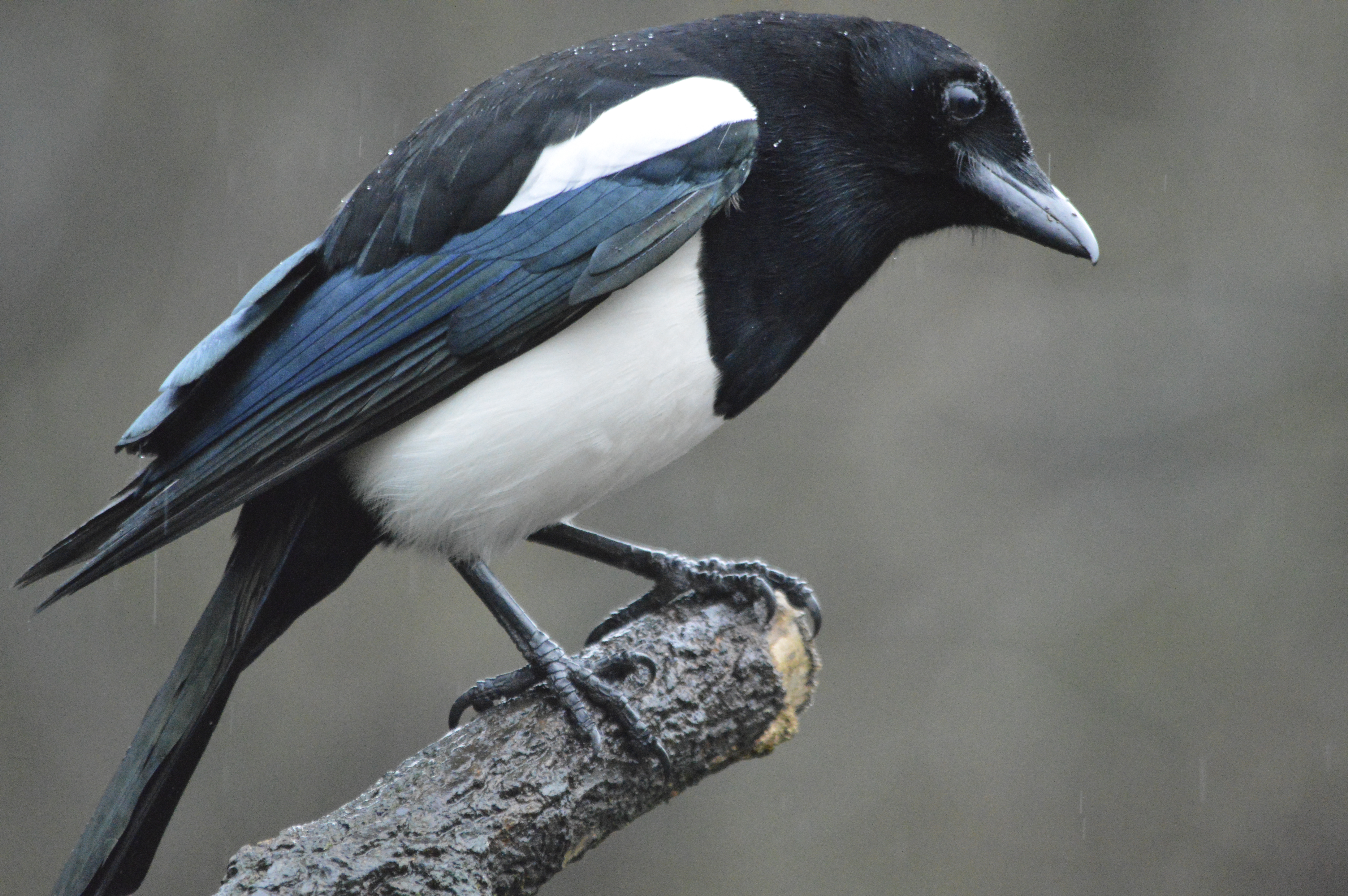 Day out to Pennnington Flash and the county park. Lots of birds to see and great facilities with regards hides and feeding stations. A real opportunity to get close!